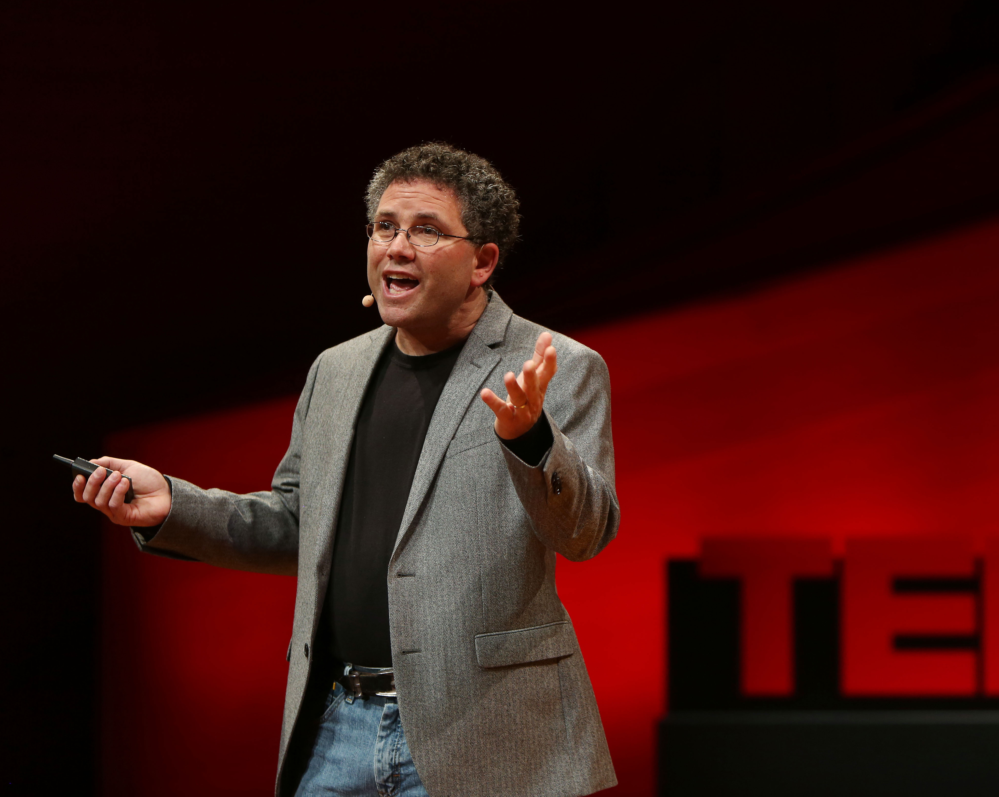 Louis Rosenberg speaking in 2017